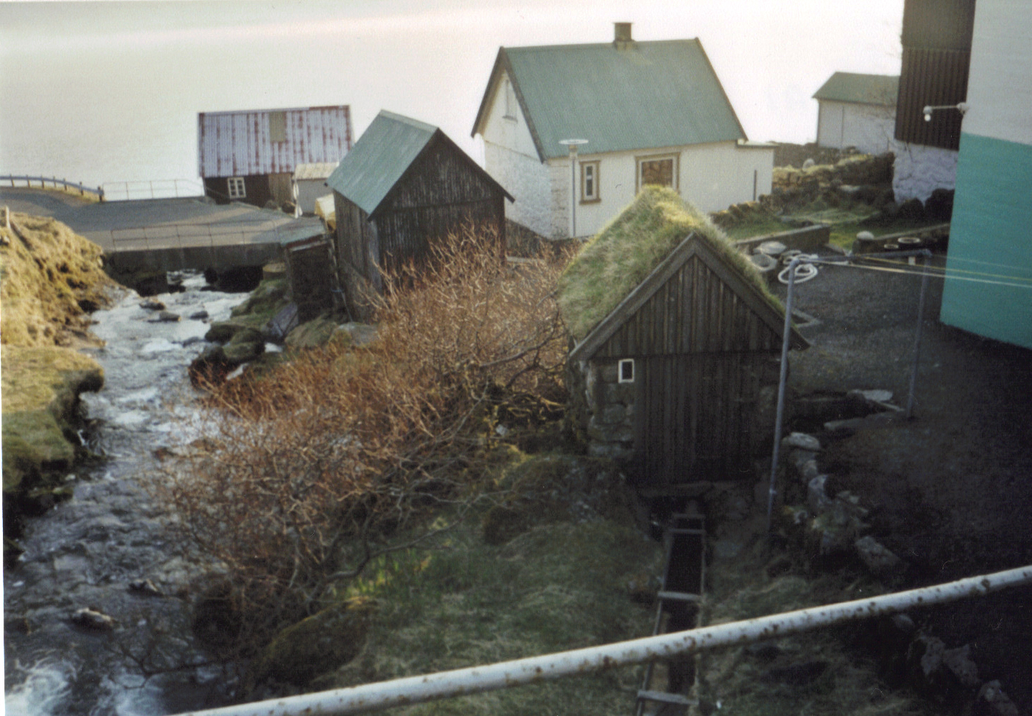 Water Mill, Kunoy, Faeroese